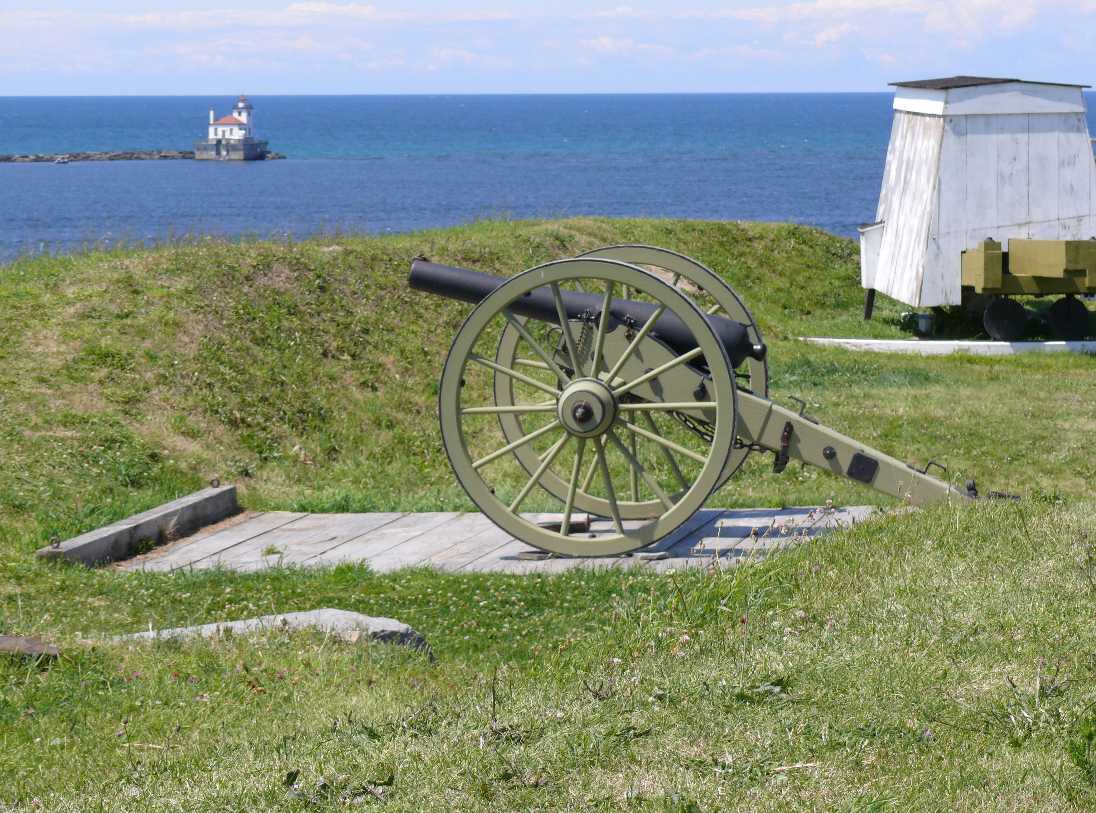 Fort Ontario is an historic fort situated by the city of Oswego, New York. Fort Ontario is een historische vesting gelegen bij Oswego, New York.